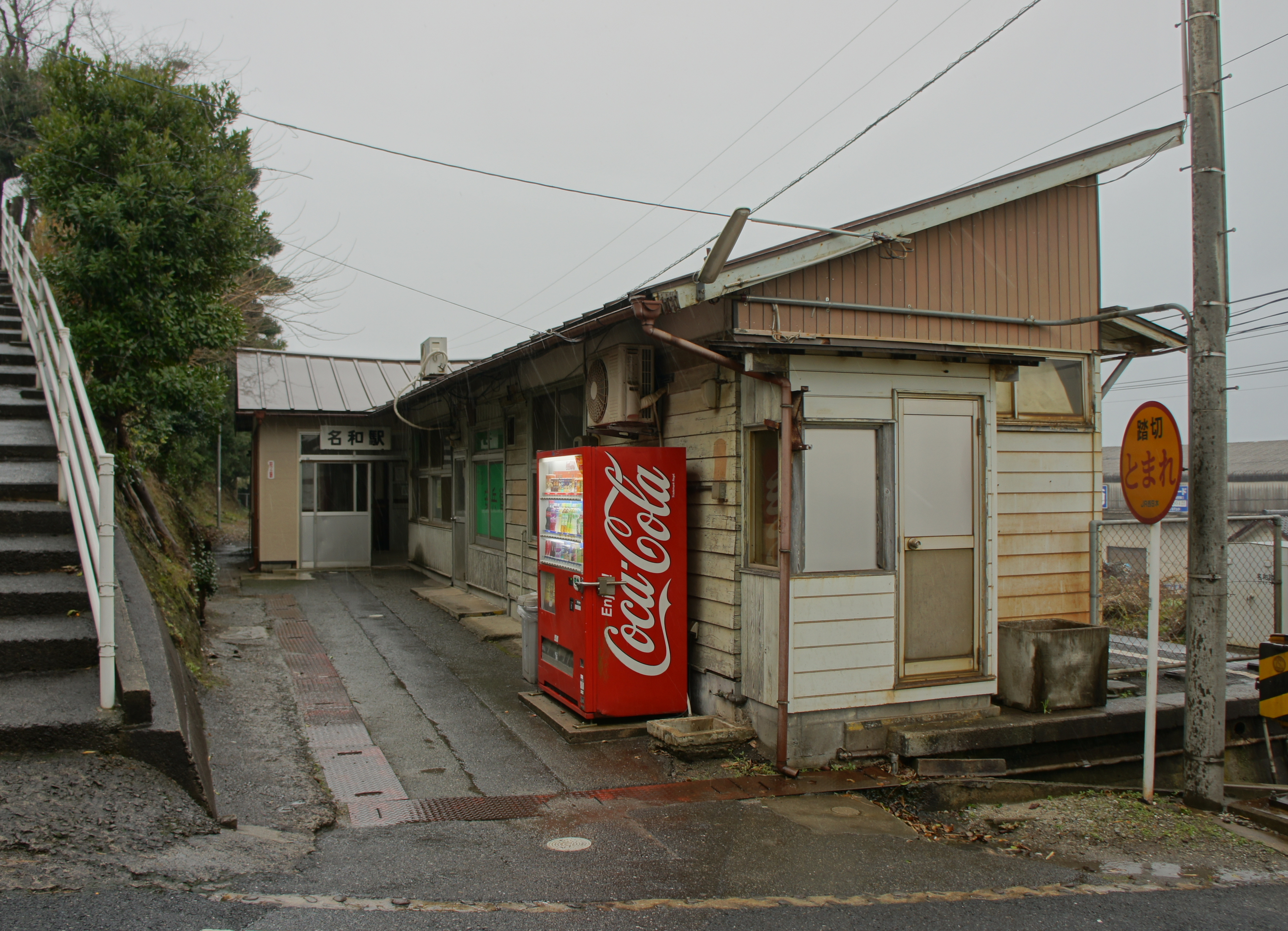 Entrance of Nawa Station (Daisen, Tottori Prefecture, Japan)